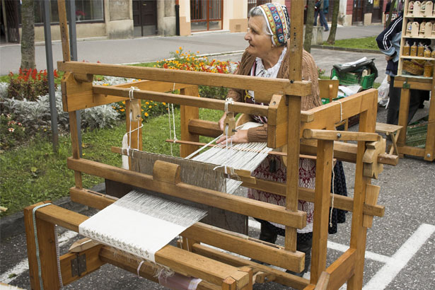 Old weaver showing traditional method of weaving.